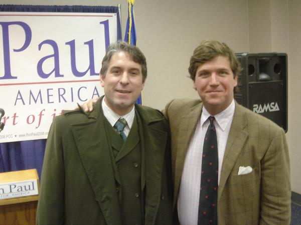 Tucker Carlson showing support for the 2008 Ron Paul Presidential campaign.